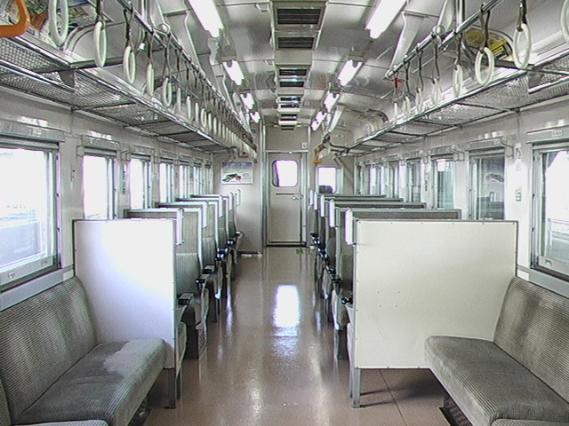 Interior of JR Hokkaido KiHa 141 series DMU car KiHa 142-12